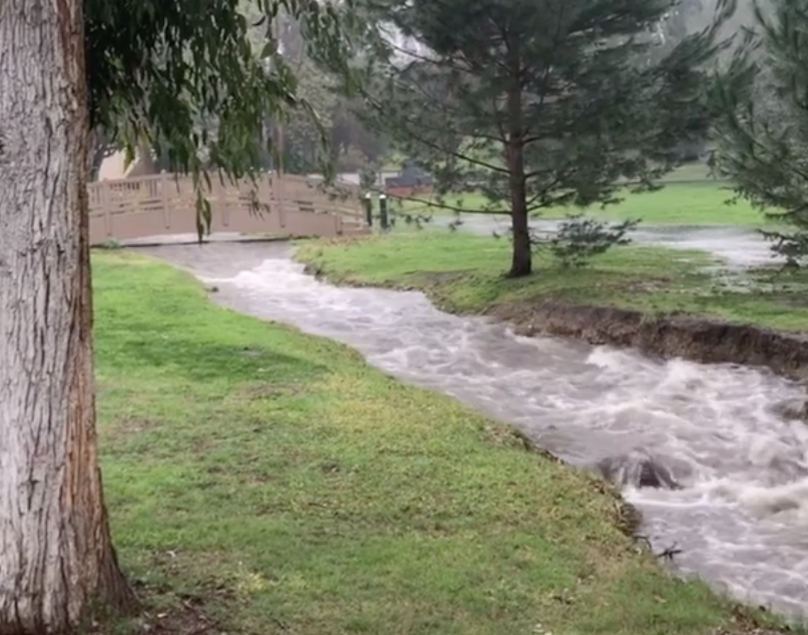 Kingsmen Creek at California Lutheran University